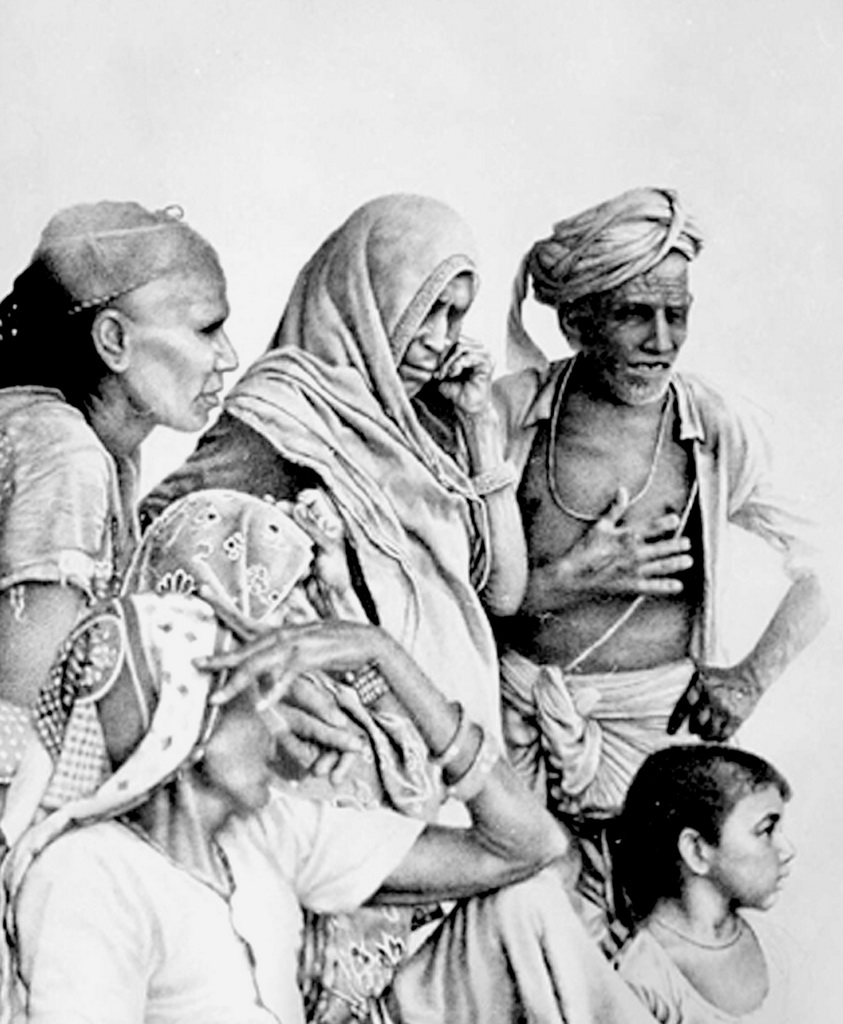 Vilen Karakashev's work